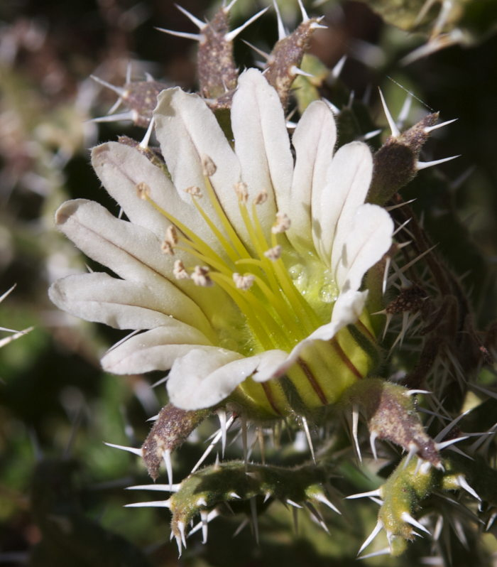 Codon royenii in Goegap Nature Preserve, east of Springbok, South Africa